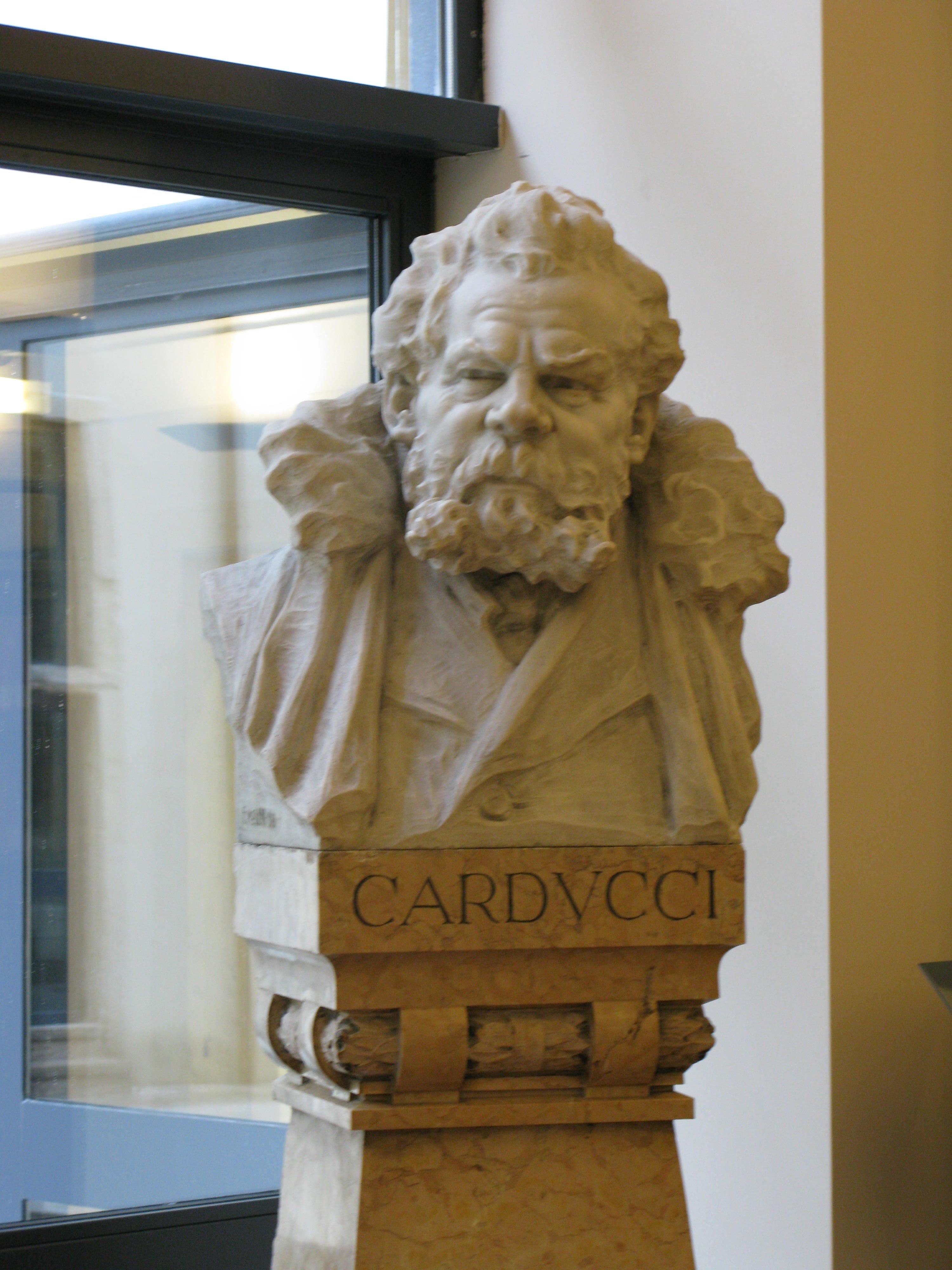 Giosuè Carducci, italian poet.